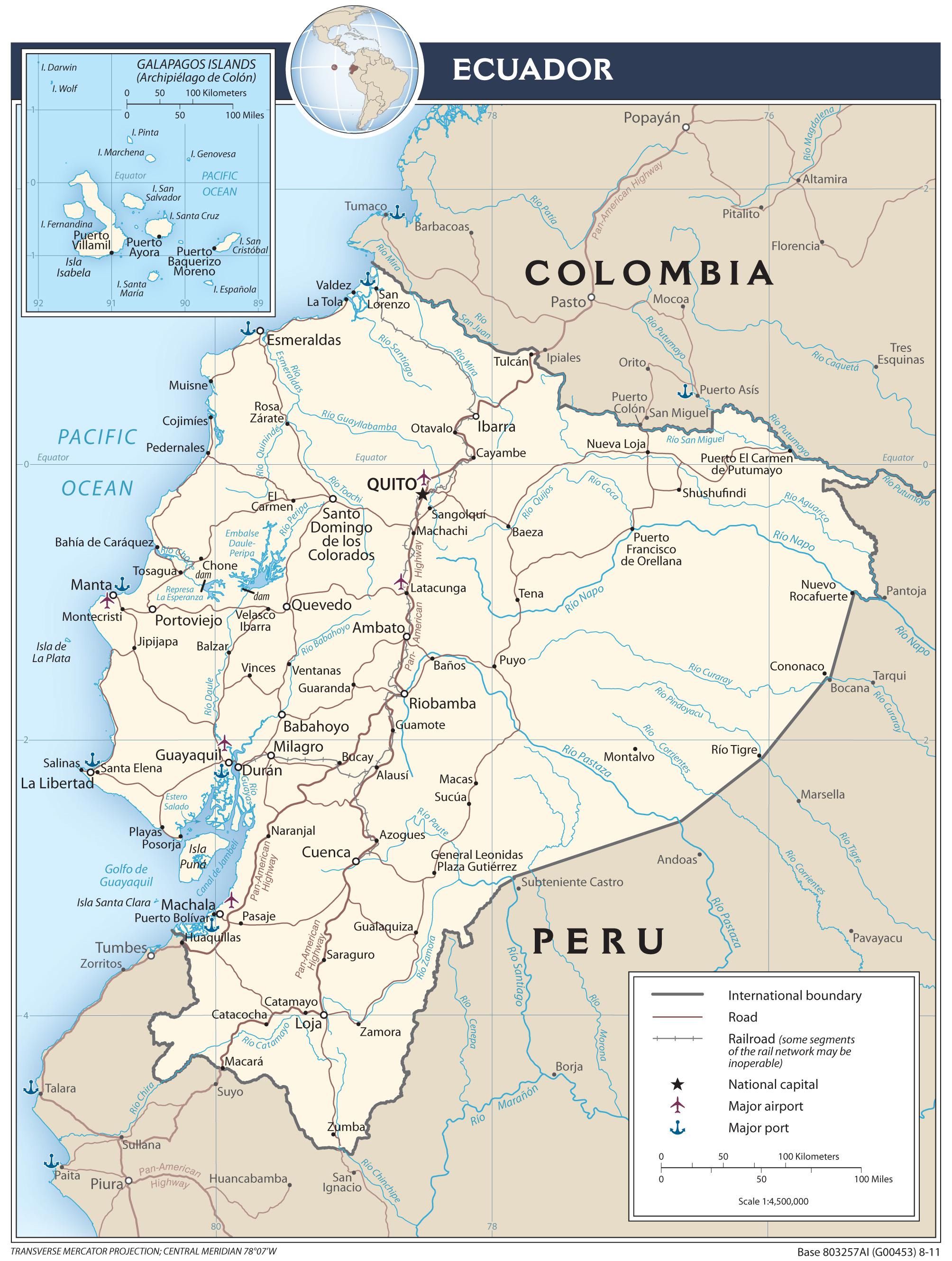 Transport system in Ecuador, 2011.